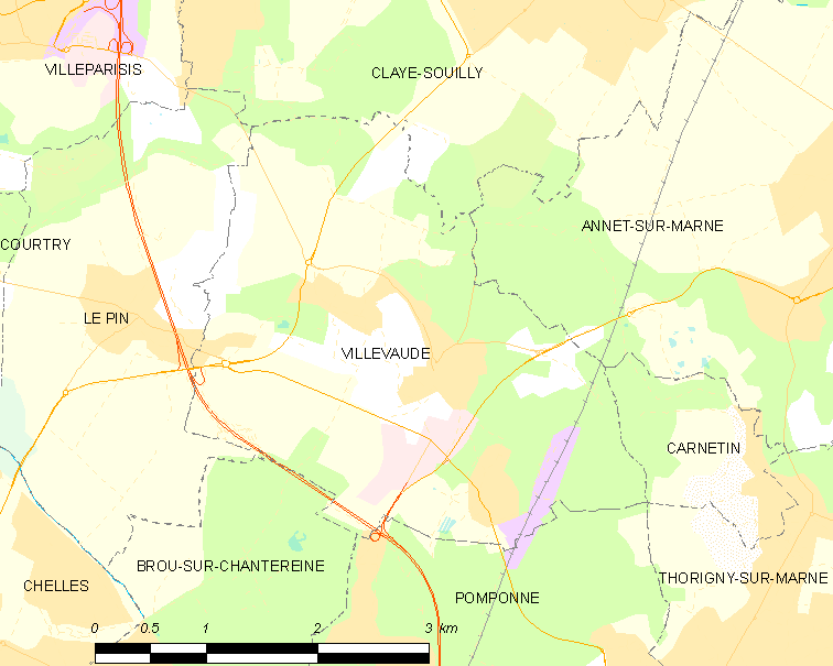 Map of French municipality Villevaudé